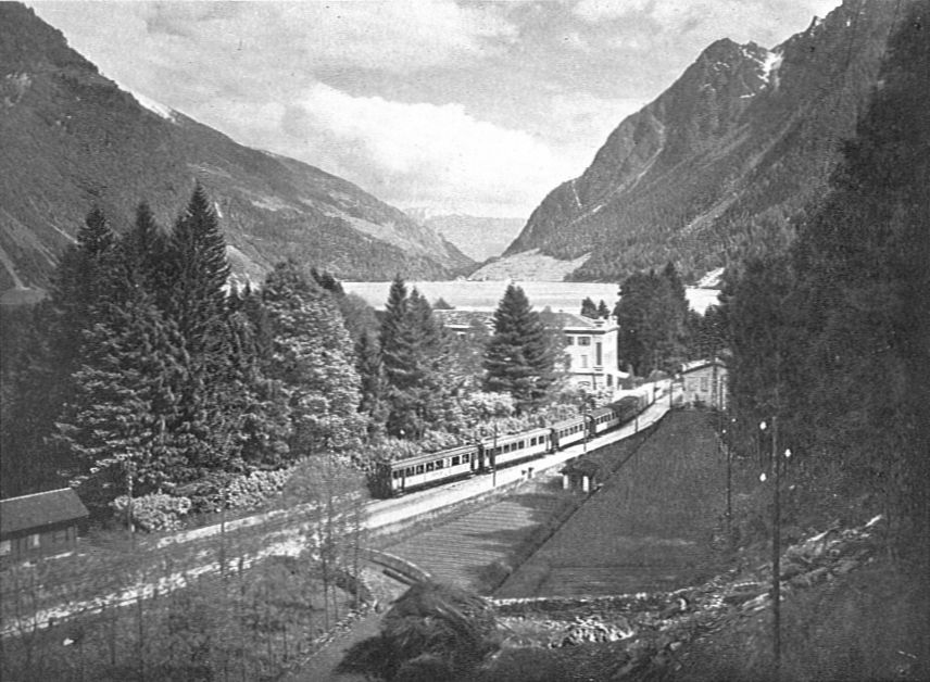 A Beautiful Swiss Railway Scene The Bernina Railway (the steepest adhesion railway in the world), near the Lake of La Prese Photo: Swiss Federal Rys.